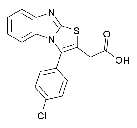 Stucture of tilomisole